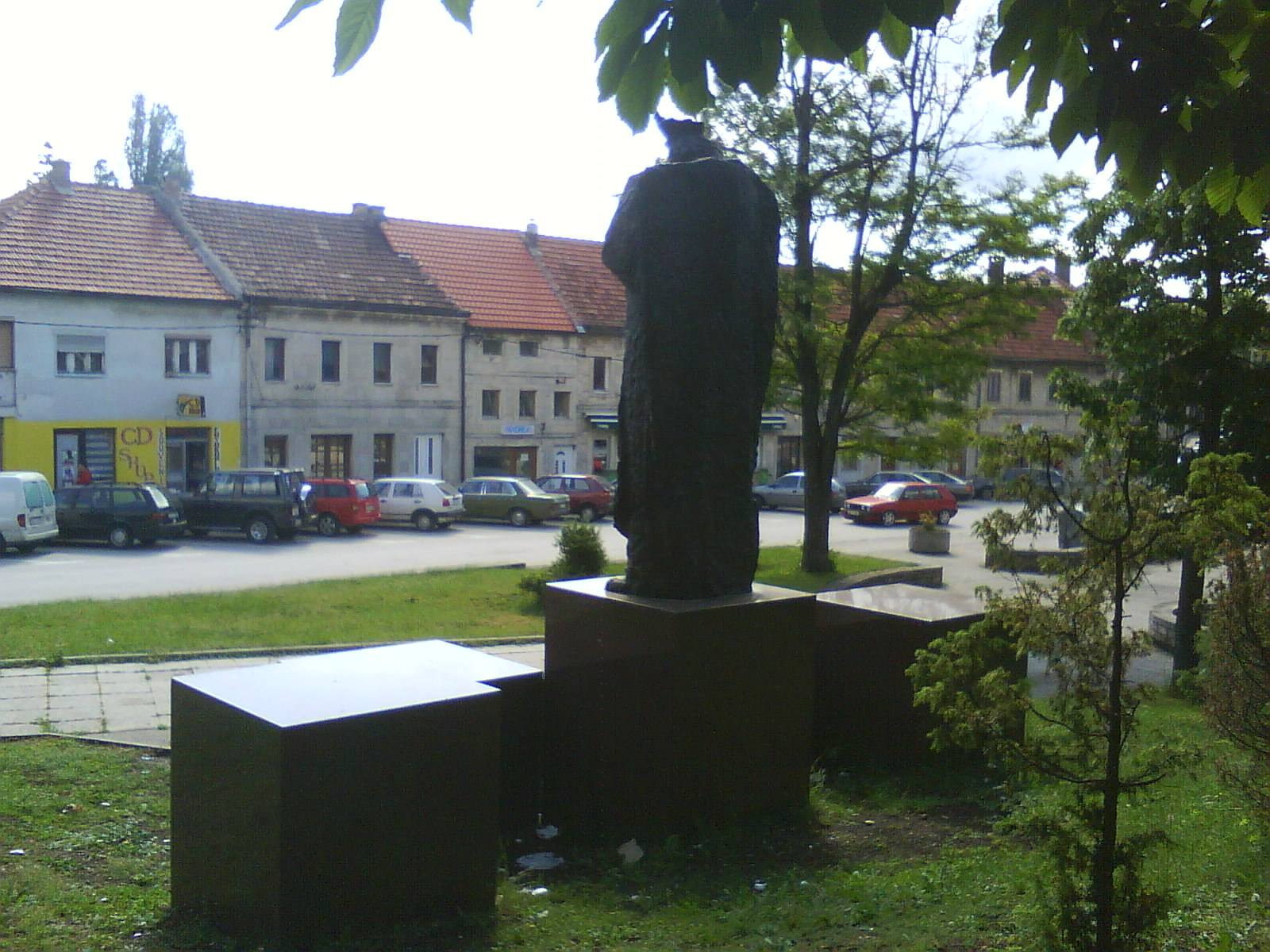 King Tomislav monument